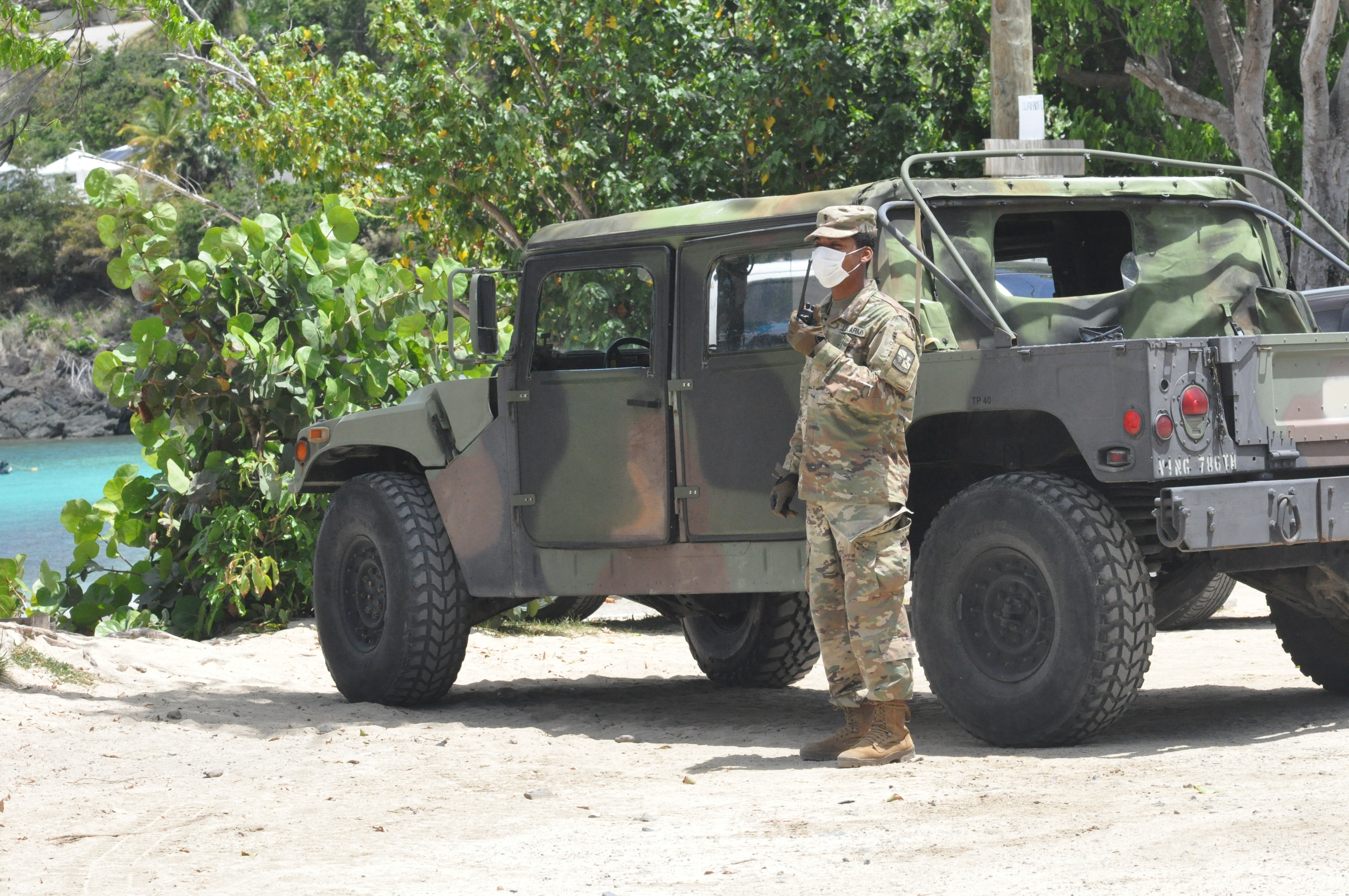 Cadet Josinio Andrew communicates on a handheld radio at Hull Bay Beach, St. Thomas, April 18, 2020. Members of the 786th Combat Sustainment Support Battalion assist the VI Department of Health in sharing stay at home public service announcements to help slow the spread of the COVID- 19 pandemic. (Photo by Spc. Deneesha Smith)